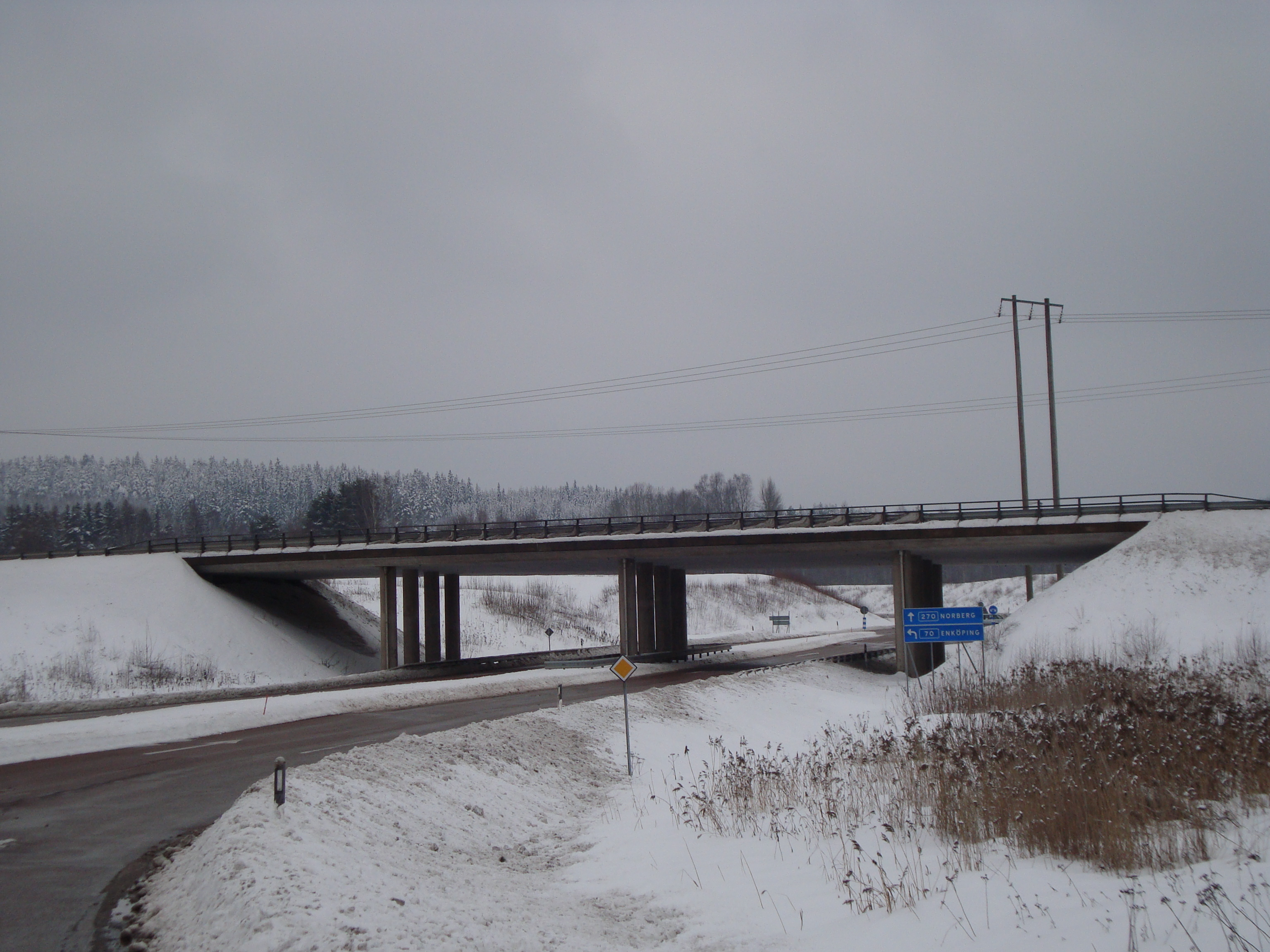 Viaduct of Backa trafikplats, in Backa, south of Hedemora, Sweden.